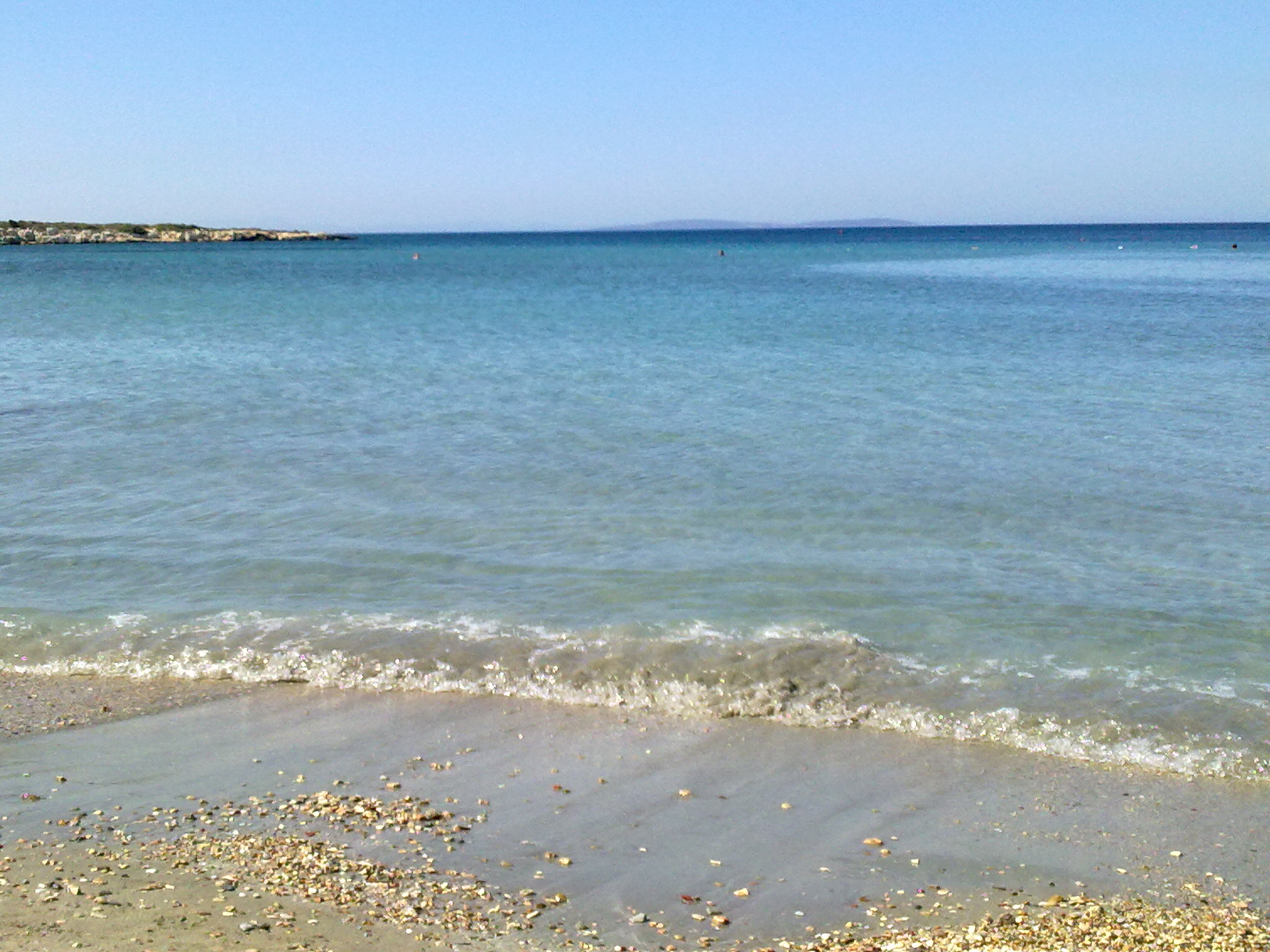 Coast of the Aegean Sea near Didim. In Aydın Province, western Anatolia, Turkey.